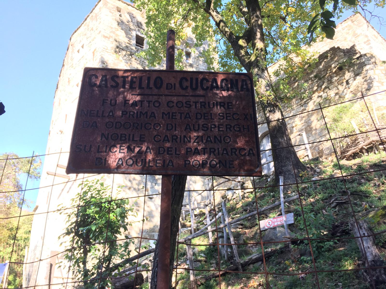 Cucagna